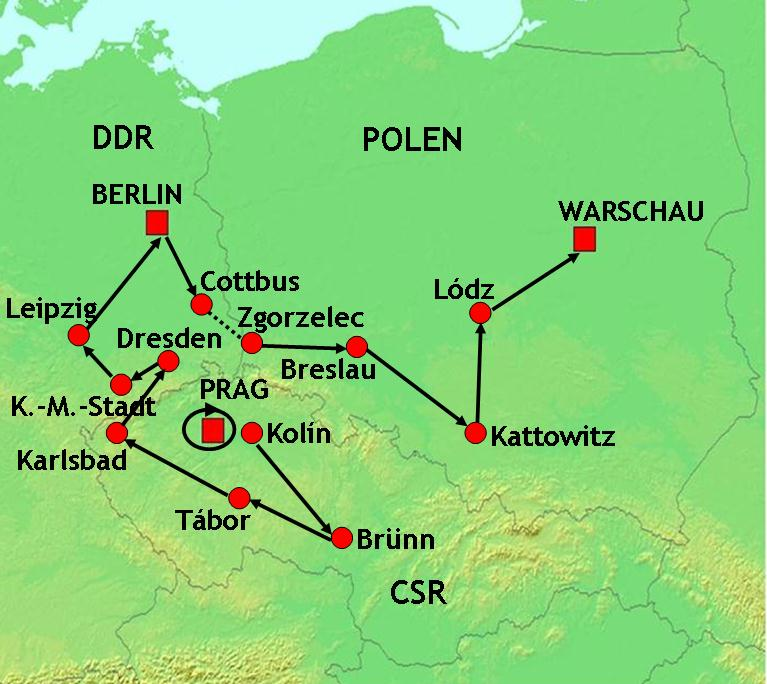 Topographic map 90deg, North latitude: 0 - 90, West longitude: 30 - East longitude: 60